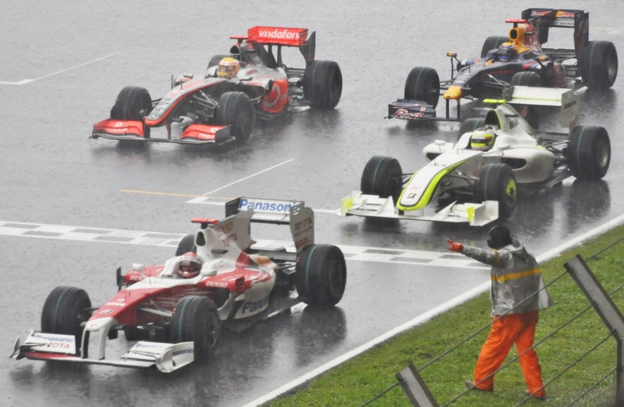 heavily rain force the race to stop.That Brawn GP won for the second time in Malaysia was no great shock. That they won in such stormy, unpredictable conditions - with a car that had never run in the rain before - was perhaps more surprising. As was the fact that Ferrari and McLaren came away with just a point between them.